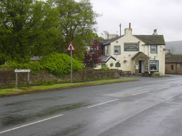 Kettledrum Inn Named after a Derby winner